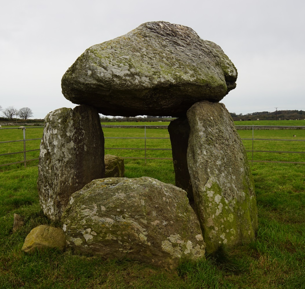 Bodowyr Burial Chamber, Anglesey, Wales, United Kingdom. View from the east.